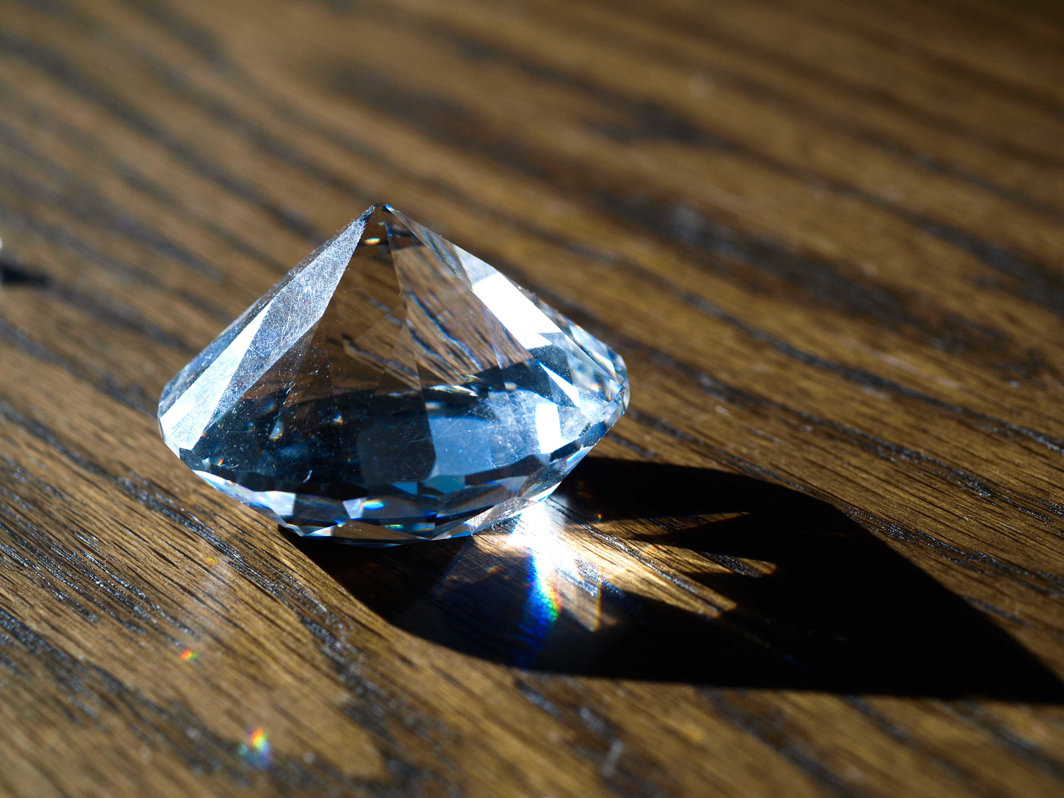 Synthetic Diamond